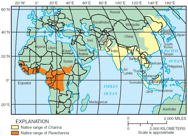 Diagram of Channidae distribution from USGS en: Circular 1251